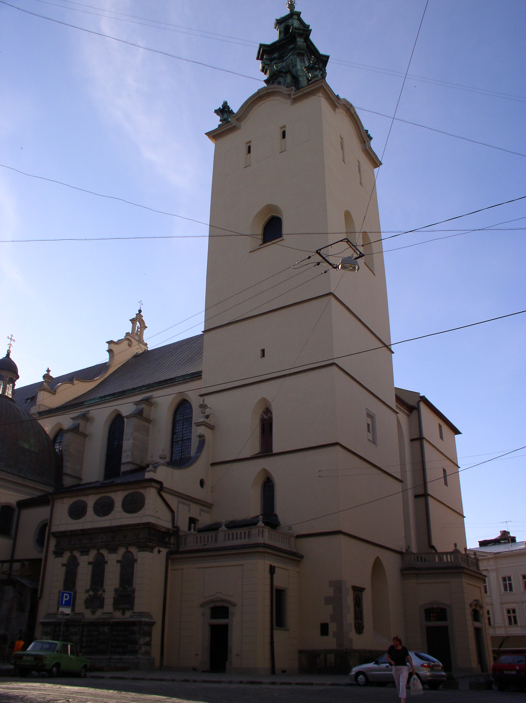 Latin cathedral. Lviv, Ukraine.